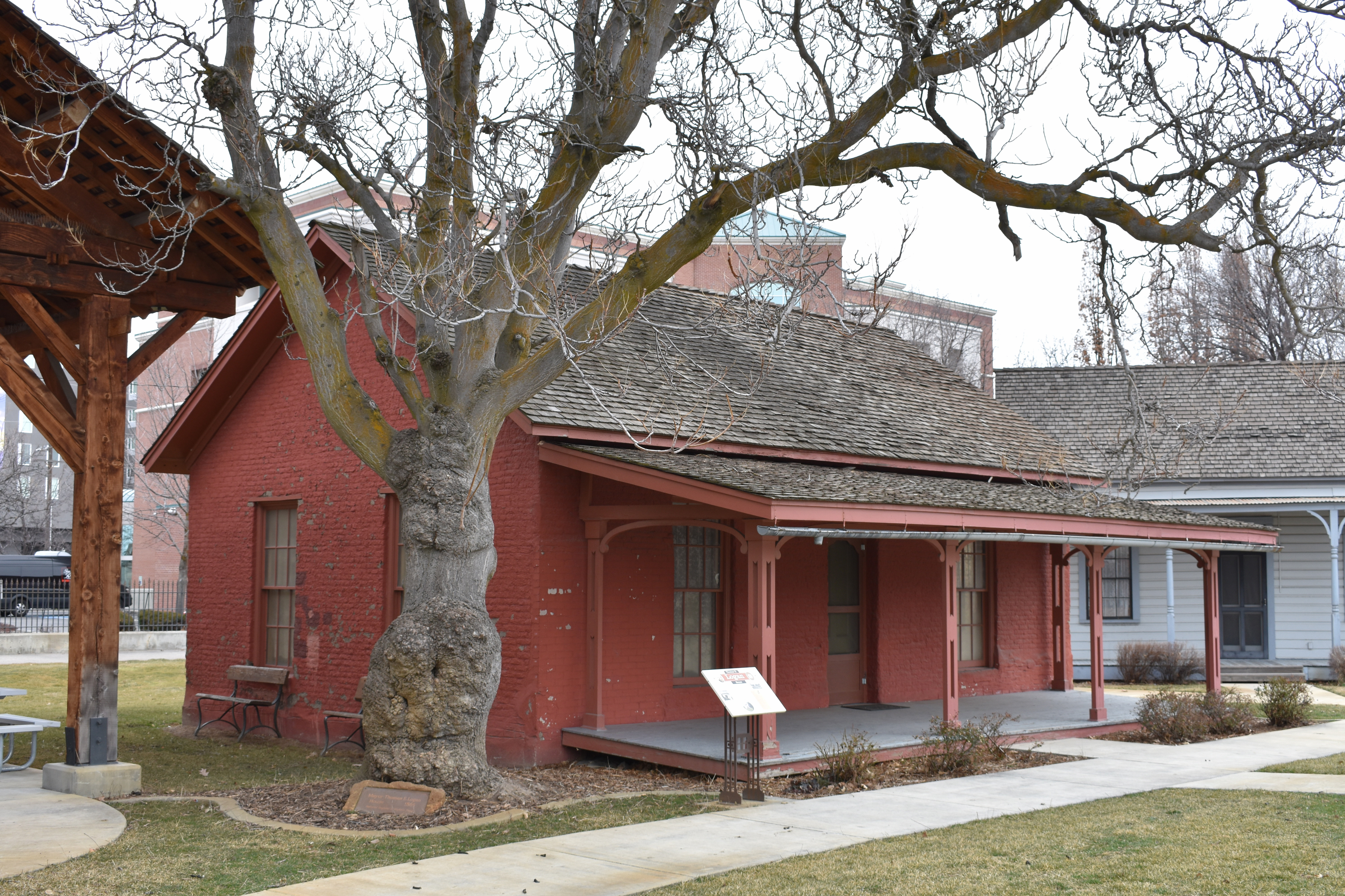 The Thomas E. Logan House at the Idaho State Museum in Boise is listed on the National Register of Historic Places.